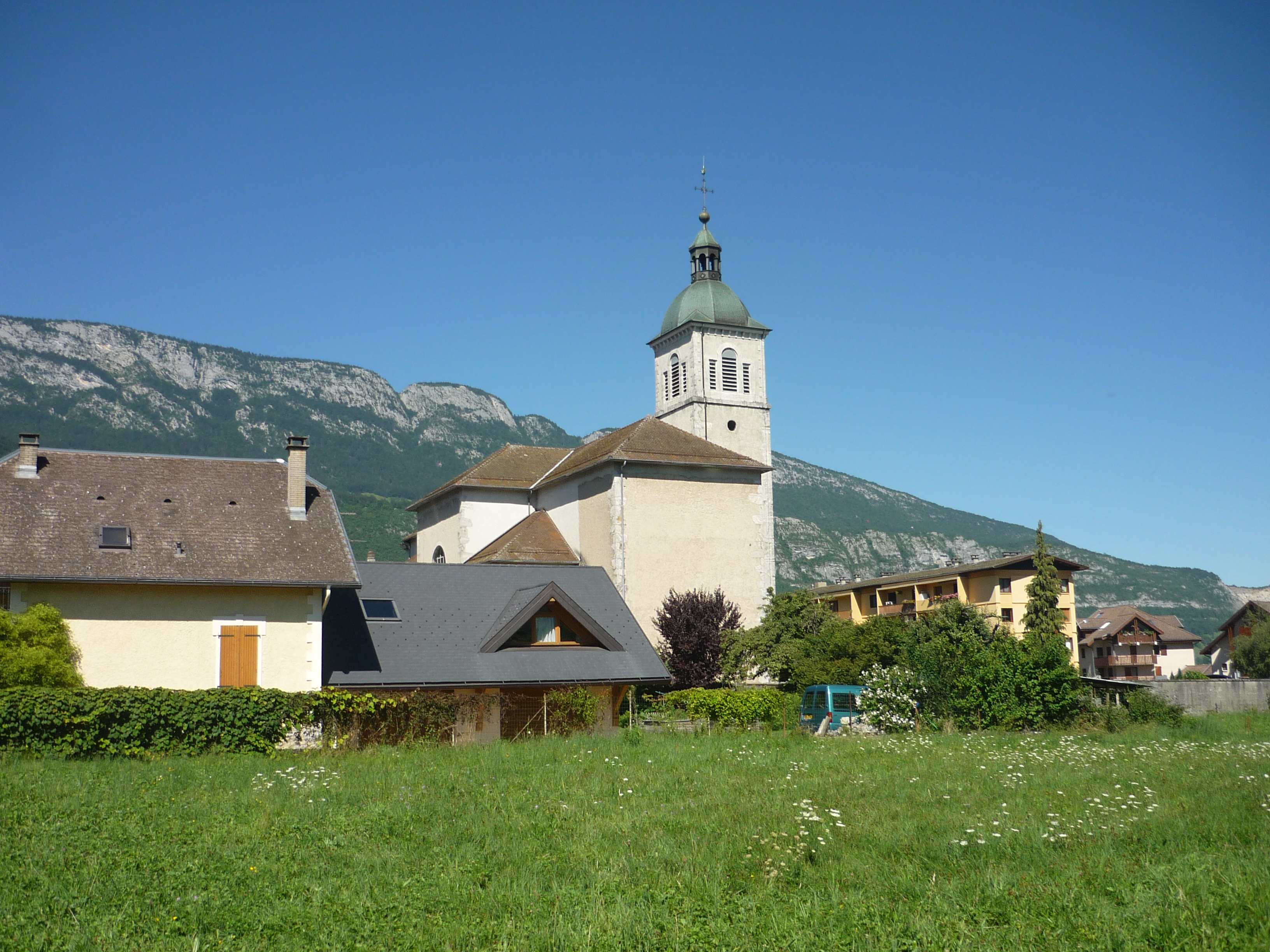 Doussard church, Haute-Savoie, France